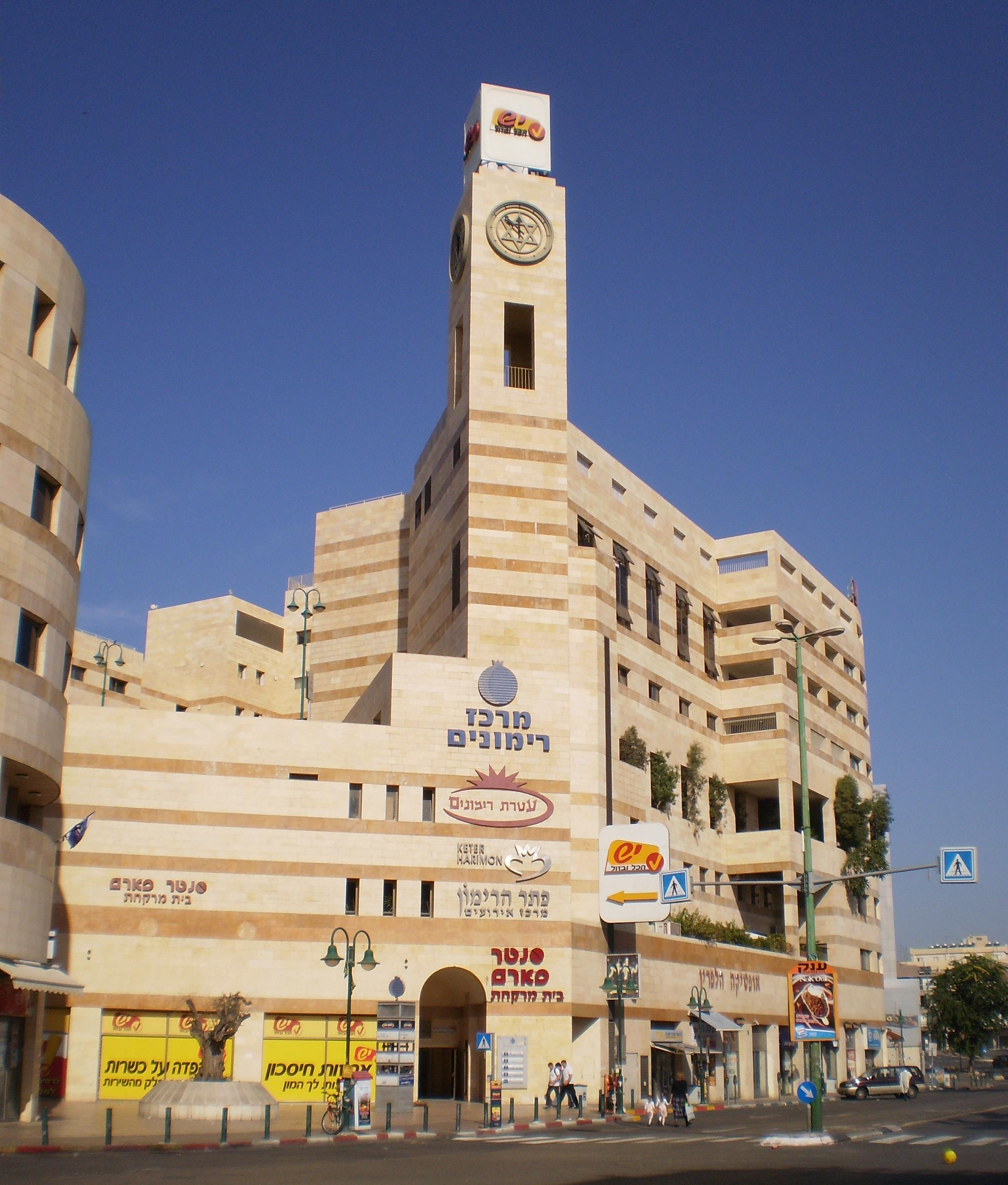 Rimonim Center, Bnei Brak